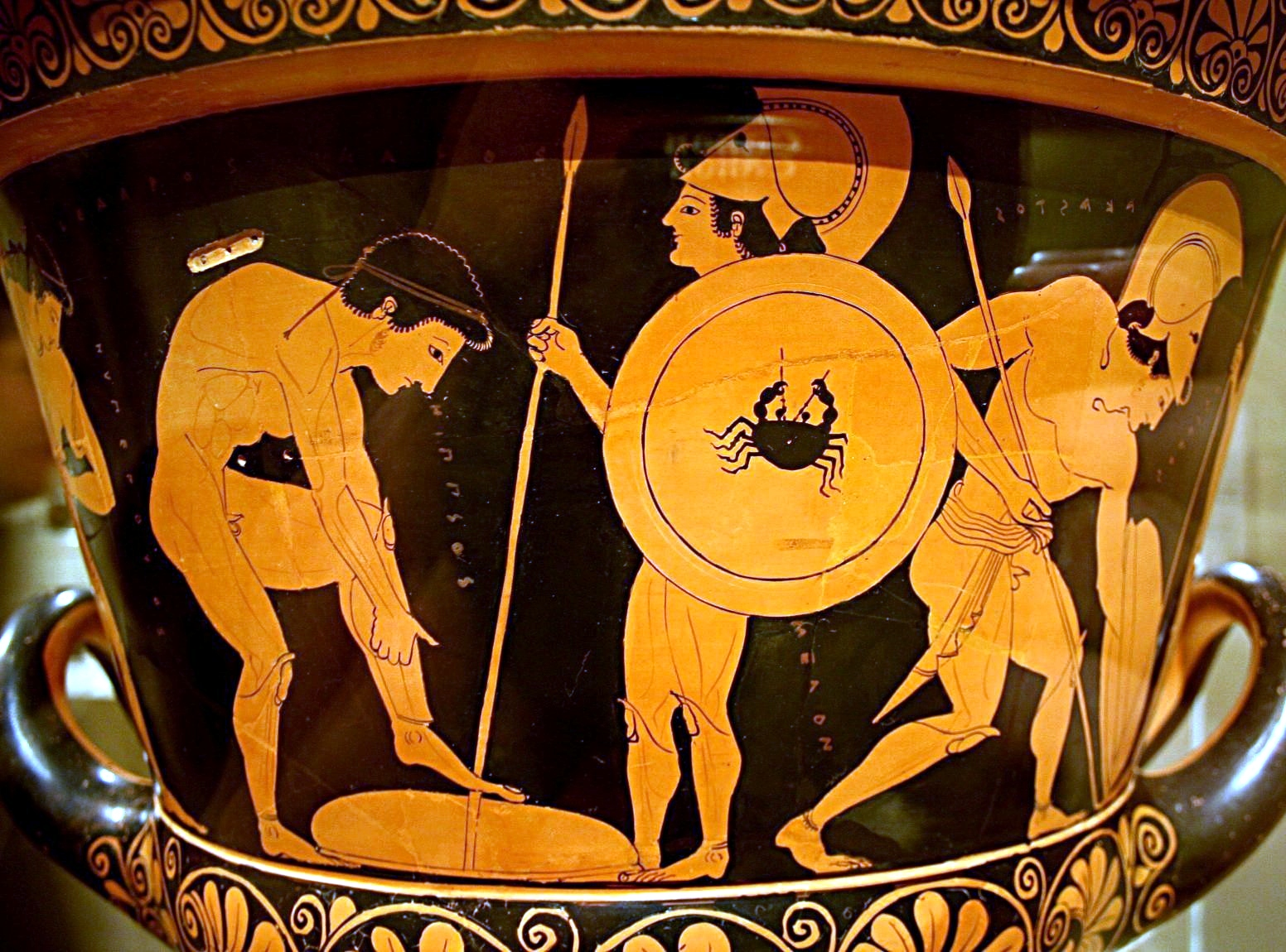 Athenian youths arming themselves. Side B of the so-called “Euphronios krater”, Attic red-figured calyx-krater signed by Euxitheos (potter) and Euphronios (painter), ca. 515 BC. H. 45.7 cm (18 in.); D. 55.1 cm (21 11/16 in.). Metropolitan Museum of Art, New York (L.2006.10).